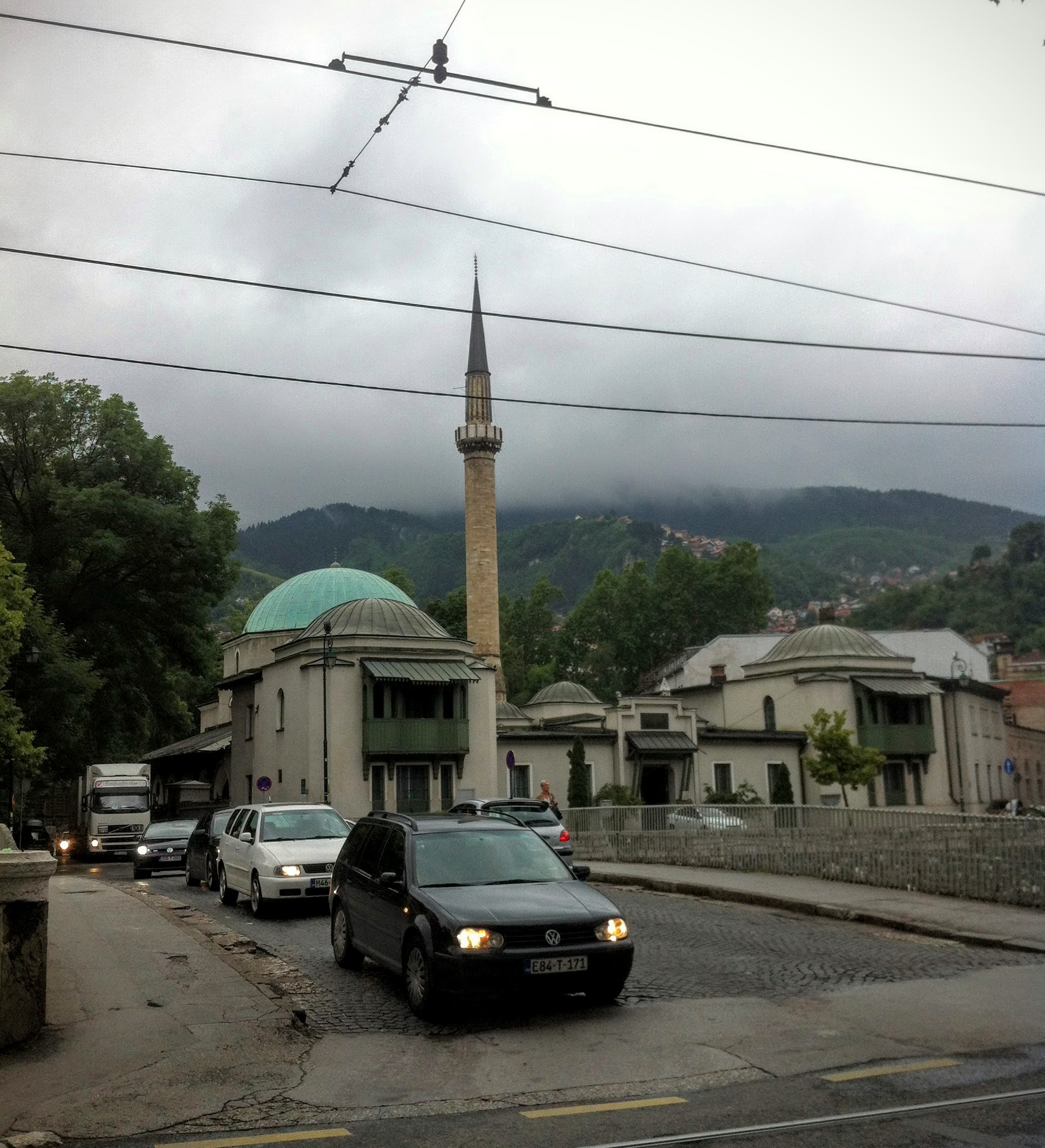 Mosque in Sarajevo's downtown